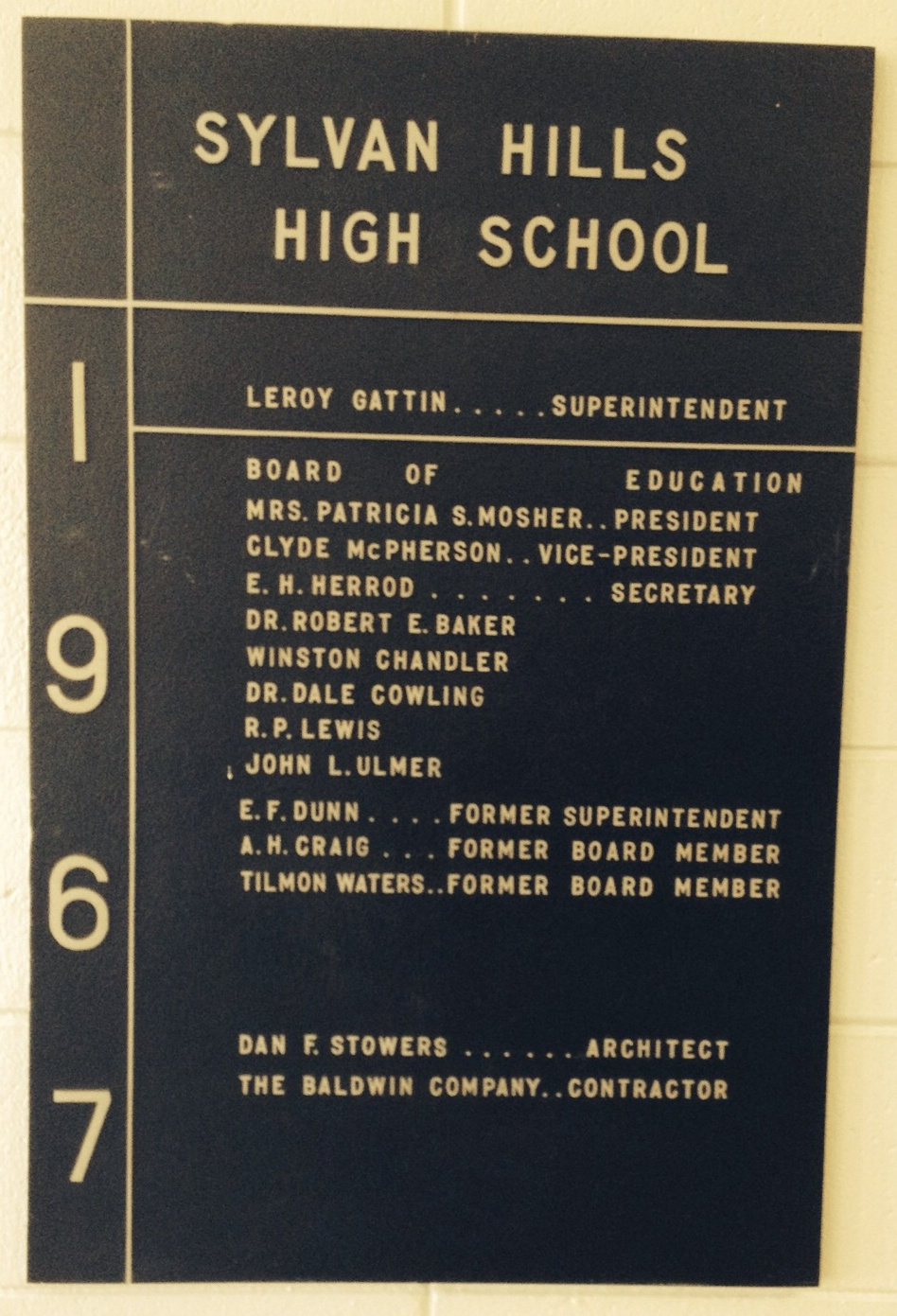 Brass placard sign located in hallway near main entrance to the school's front office that lists the superintendent, school board members, architect and construction company.